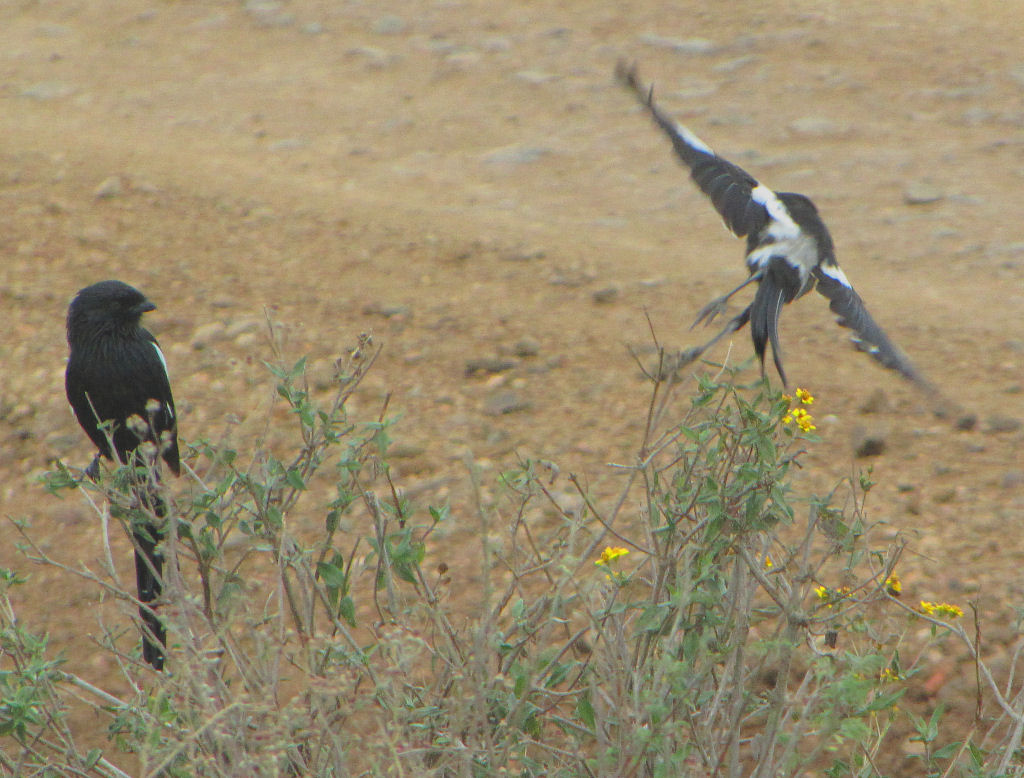 Two Magpie Shrikes (Urolestes melanoleucus) taken in Serengeti National Park, Tanzania